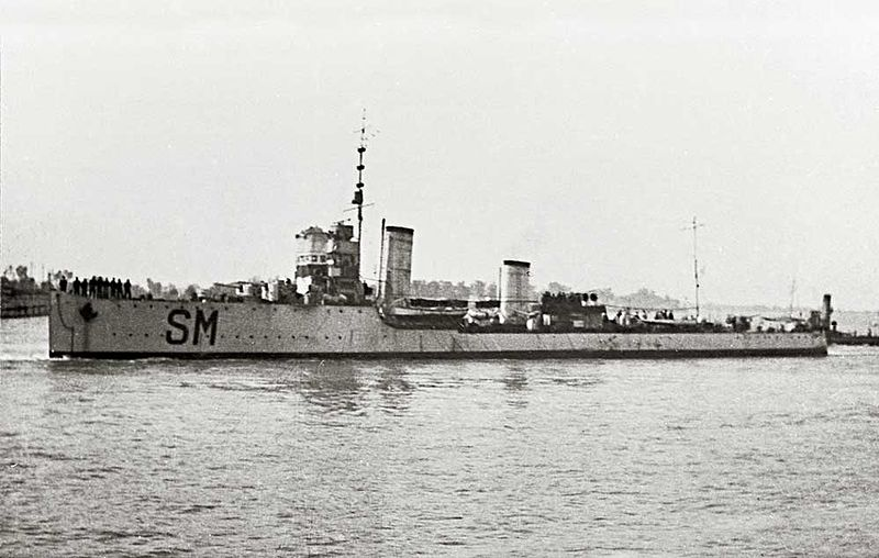 The Italian torpedo boat San martino (Palestro class)